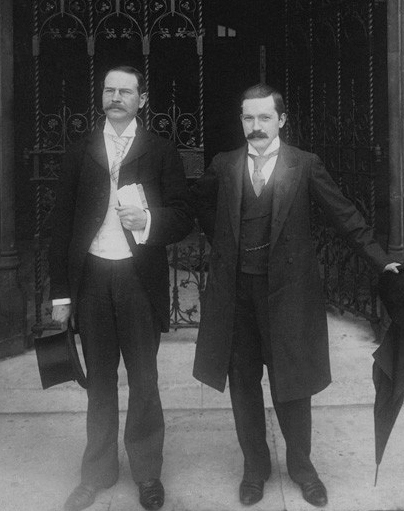 Frank MacDonagh; Jeremiah MacVeagh